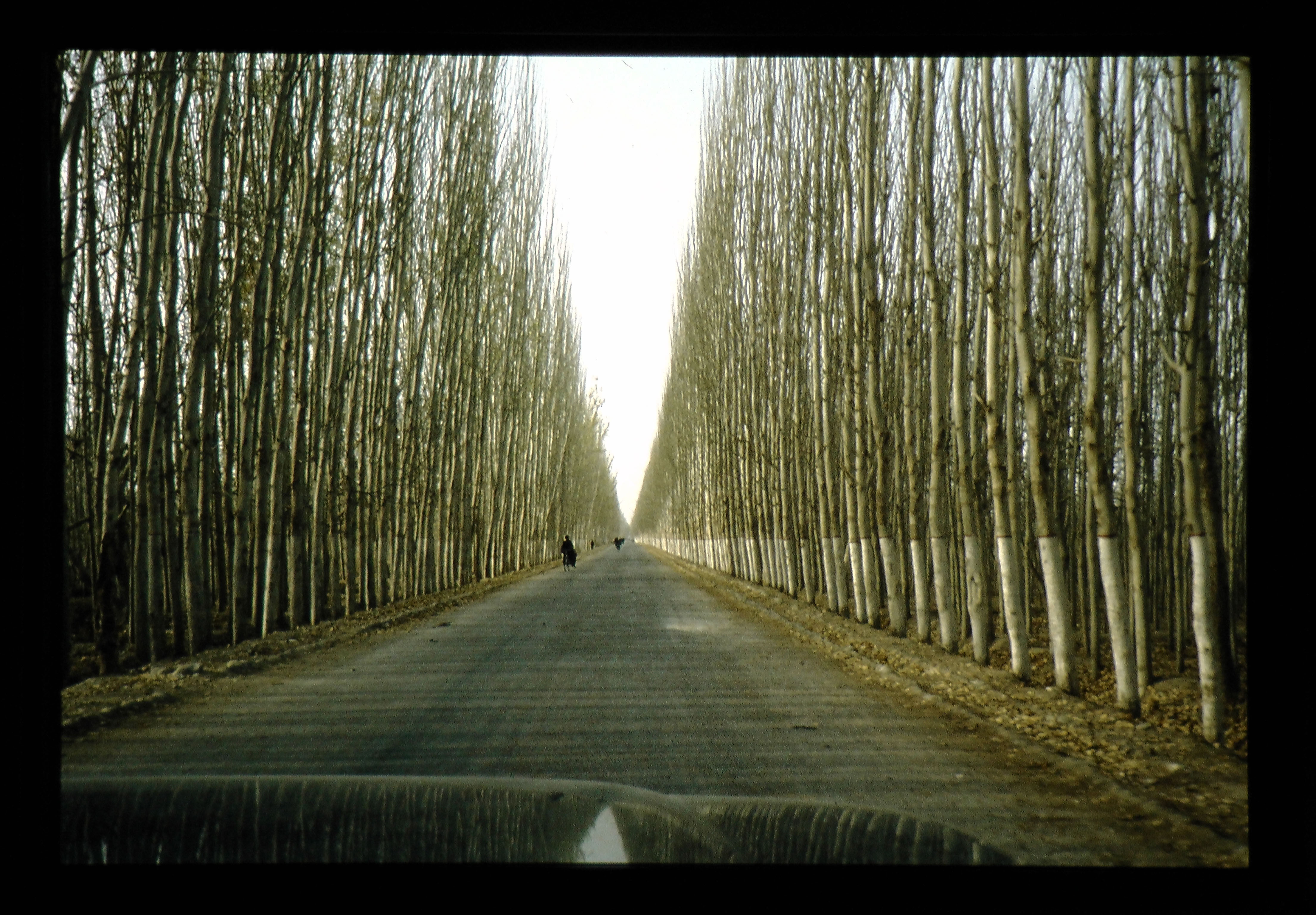 Oasis Covered By Poplar Folast Windbreak At Hotan Of The South Taklimakan Desert